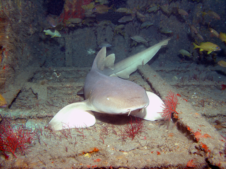 Nurse shark (Ginglymostoma cirratum) in feeding posture at The Bluffs.